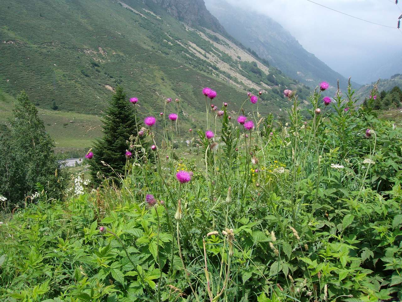 View on Pyrenees with ?Silybum marianum, RN20, Ariège